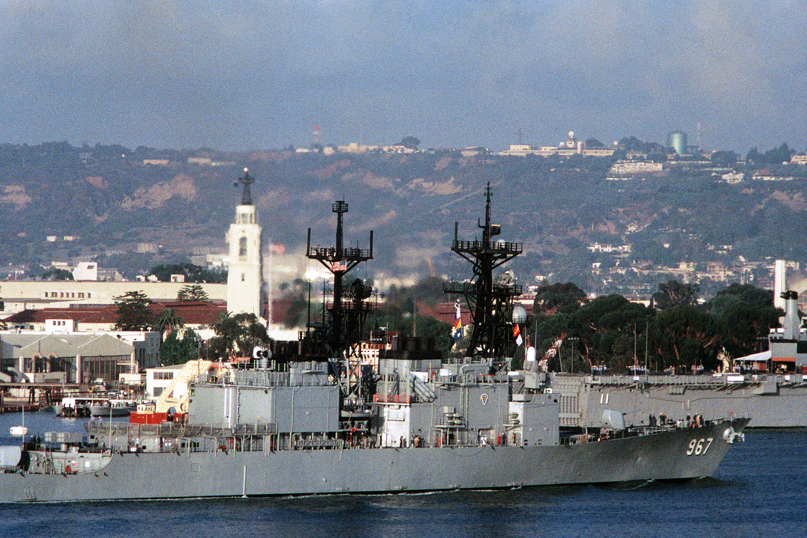 A starboard view of the destroyer USS ELLIOT (DD-967) departing port during PACEX '89. Location: SAN DIEGO, CALIFORNIA (CA) UNITED STATES OF AMERICA (USA)